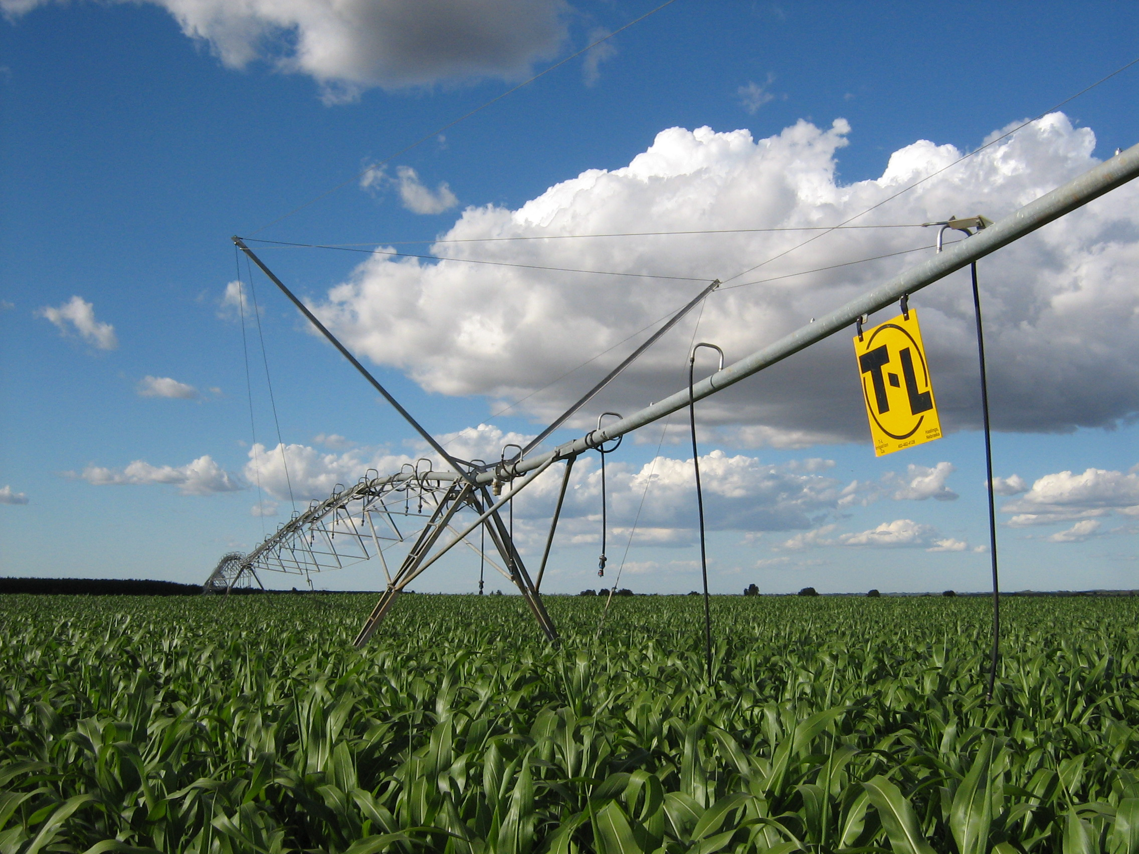 half irrigation season